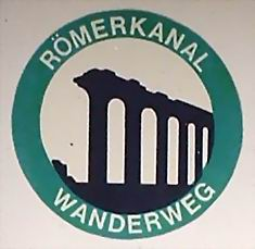 The trail along the Eifel aqueduct is marked by these signs.